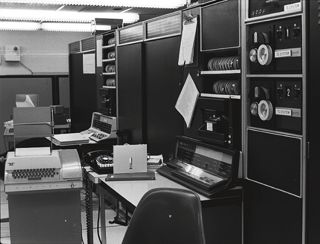 Timesharing and Development KA-10s at BBN, circa 1970. According to Ray Tomlinson: "The first email was sent between the two machines shown in this photograph. They were (obviously) side-by-side, but the only connection between them was through the ARPANET. In the foreground is BBN-TENEXA (BBNA for short). Host names in 1971 had no .com or dot anything; DNS came along later. BBNA was the machine on which the first email was received. In the background is BBN-TENEXB (BBNB) from which the first email was sent. On the left, foreground, is the Teletype KSR-33 terminal on which the first email was printed. Immediately behind and largely obscured is another KSR-33 on which the first email was typed. BBNA was a Digital Equipment Corporation KA10 (PDP-10) with 64K (36-bit) words of (real magnetic) core memory. In modern measure, that's 288 KBytes. BBNB was smaller with only 48K words. Both machines ran the TENEX time-sharing monitor."